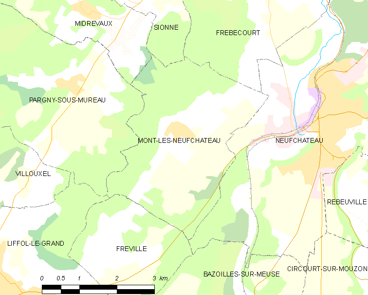 Map of French municipality Mont-lès-Neufchâteau